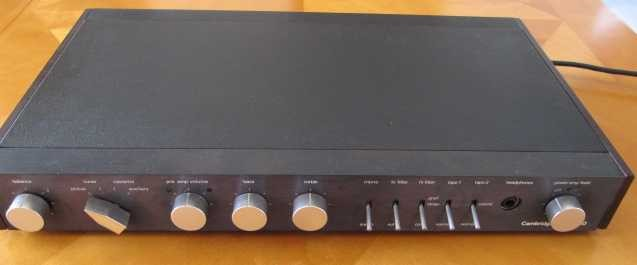 Cambridge Audio P40